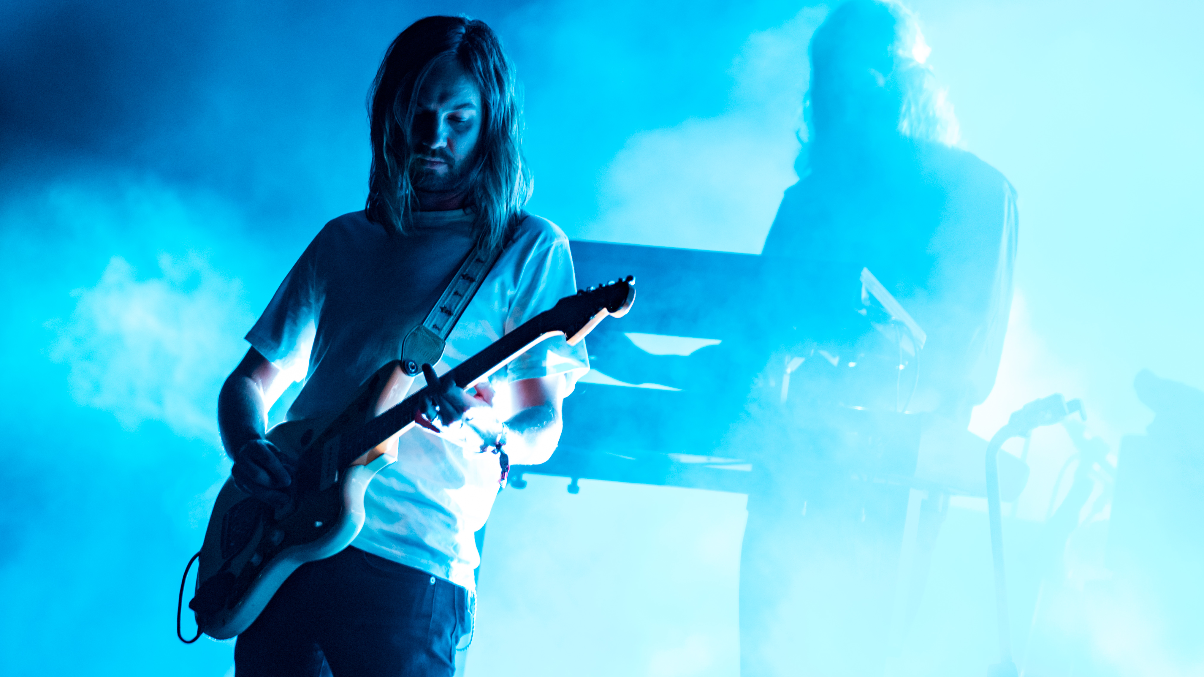 Australian psychedelic rock band Tame Impala performing at Primavera Sound festival 2019